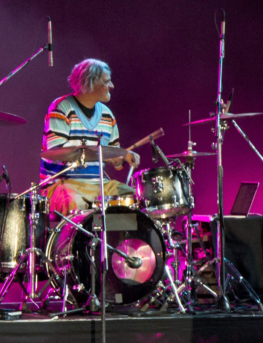 Foto: Augusto Starita / Ministerio de Cultura de la Nación.